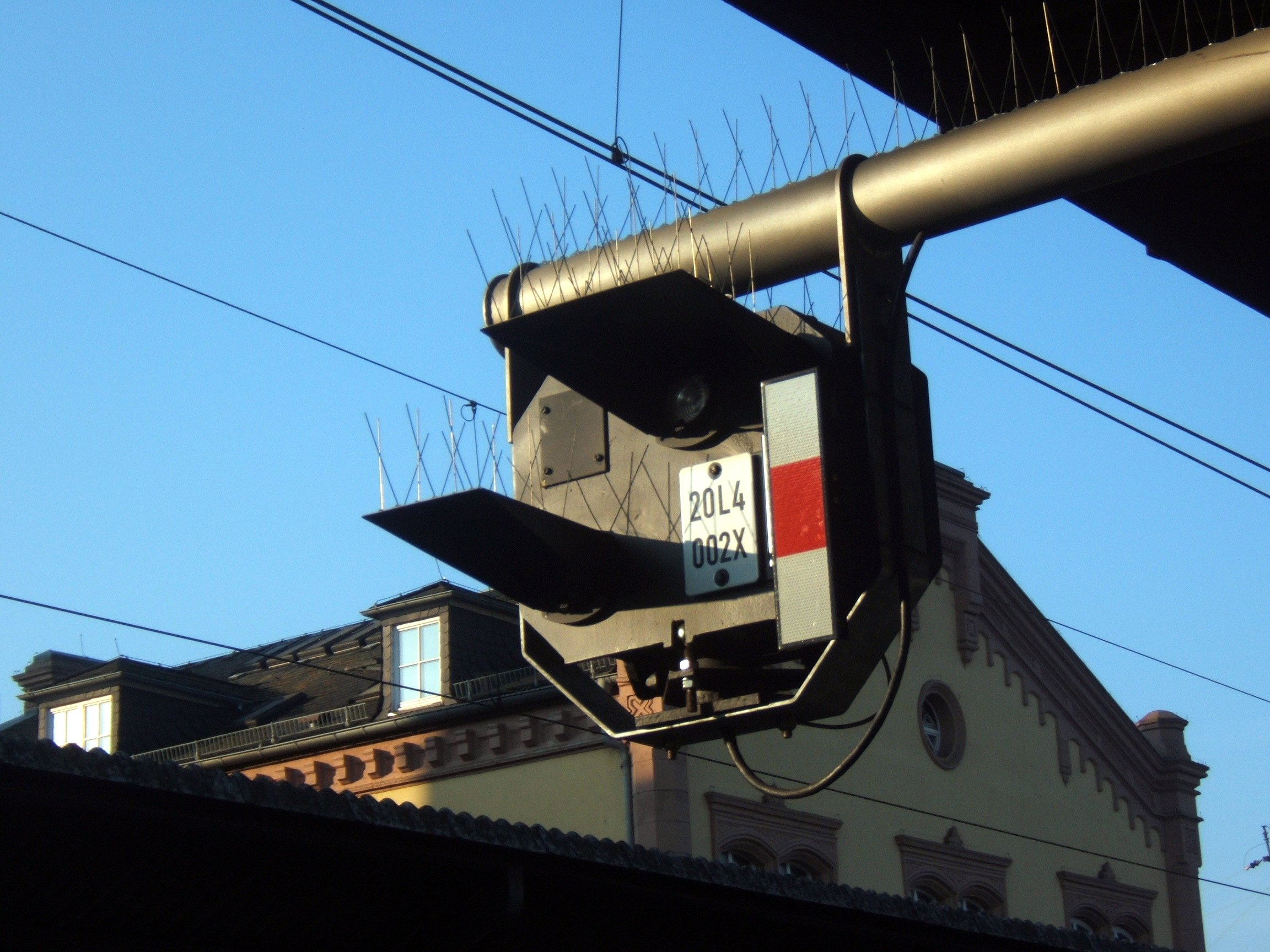 Bahnsignal mit Taubenschutz am Gießener Bahnhof Trainsignal with dove-protection at Giessen station von/by Christian Stamm